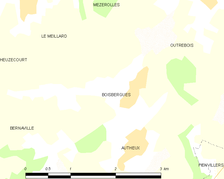 Map of French municipality Boisbergues